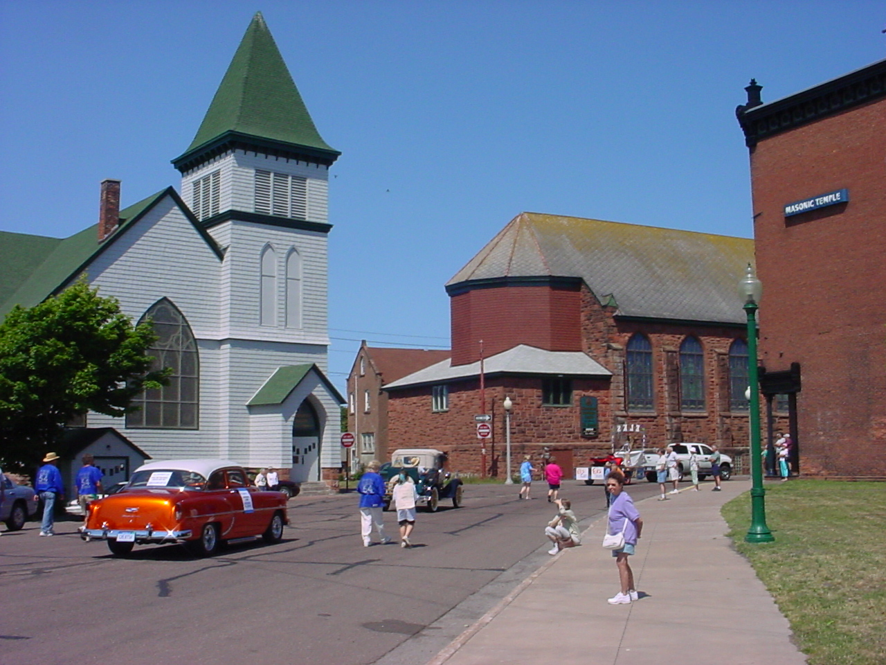 Car show during 2007 Calumet High School reunion